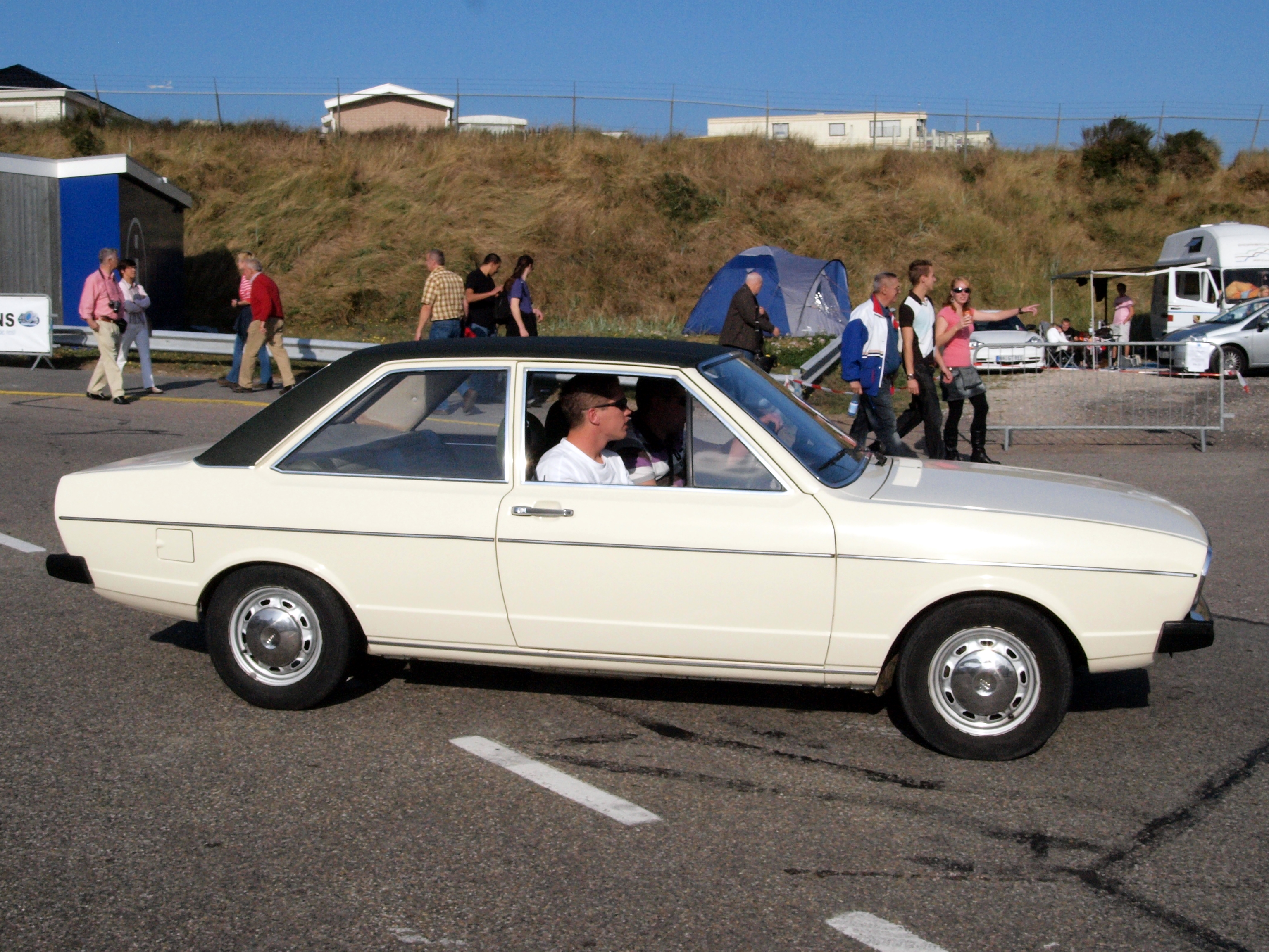 Photographed at the Nationaal Oldtimer Festival Zandvoort 2009, The Netherlands. OLYMPUS DIGITAL CAMERA